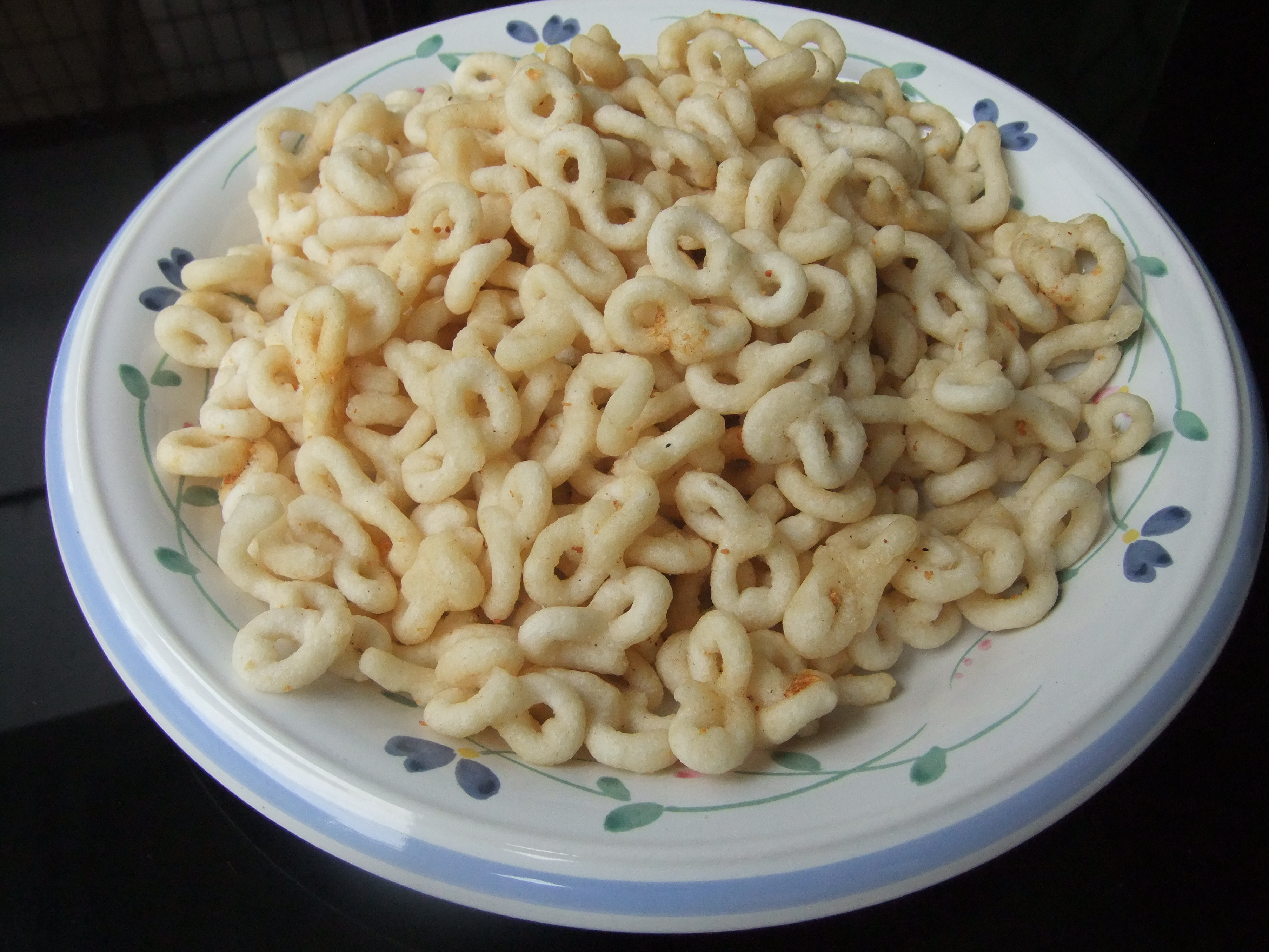 Lanthing, snack of Yogyakarta